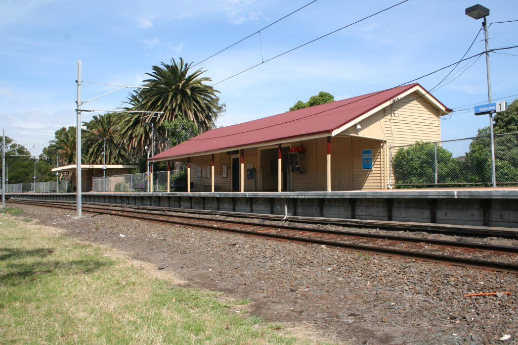 Station building on the single platform at Seaholme railway station, Melbourne